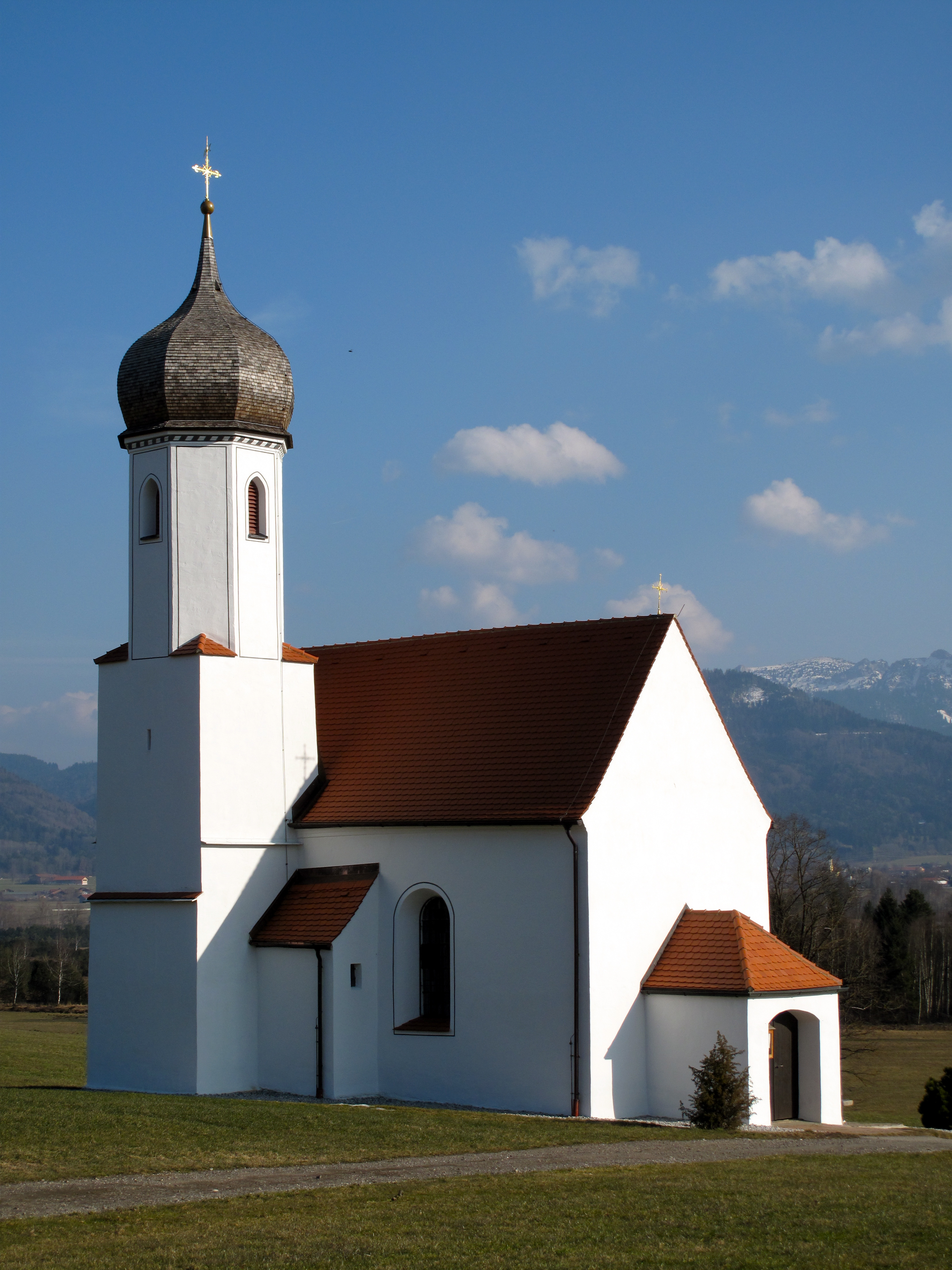 The church St. Johannisrain in St. Johannisrain close to Penzberg, Upper Bavaria, Germany.